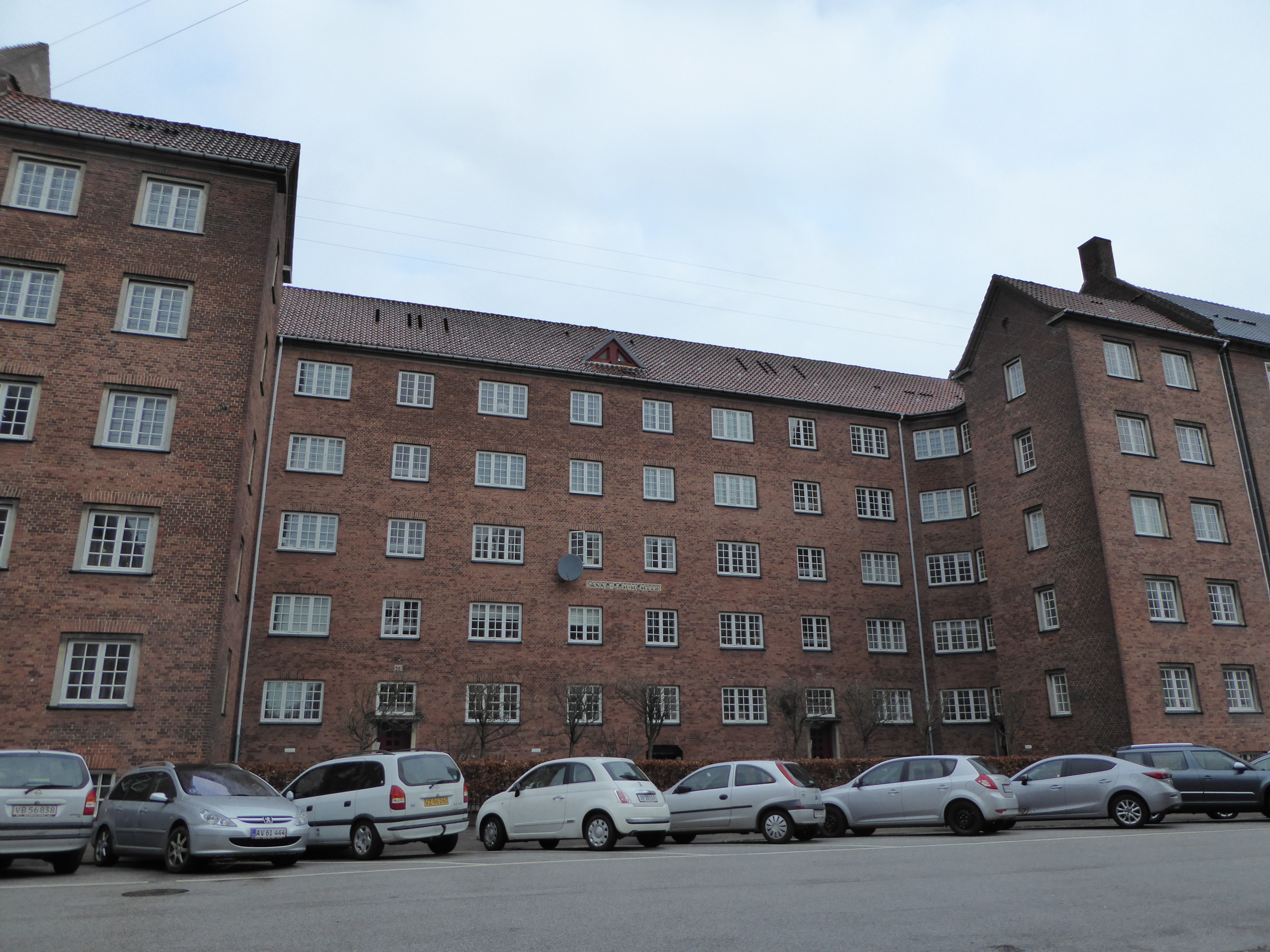 The street Australiensvej in Østerbro in Copenhagen.